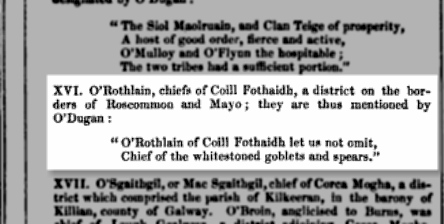 This is a snapshot I created from page 129 of "The annals of Ireland, tr. from the orig. Irish of the Four masters" by O. Connellan, published in 1845. View in Google Books Author Michael O'Clery